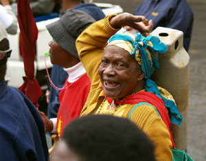 Demonstration in Johannesburg, against the privatisation of water